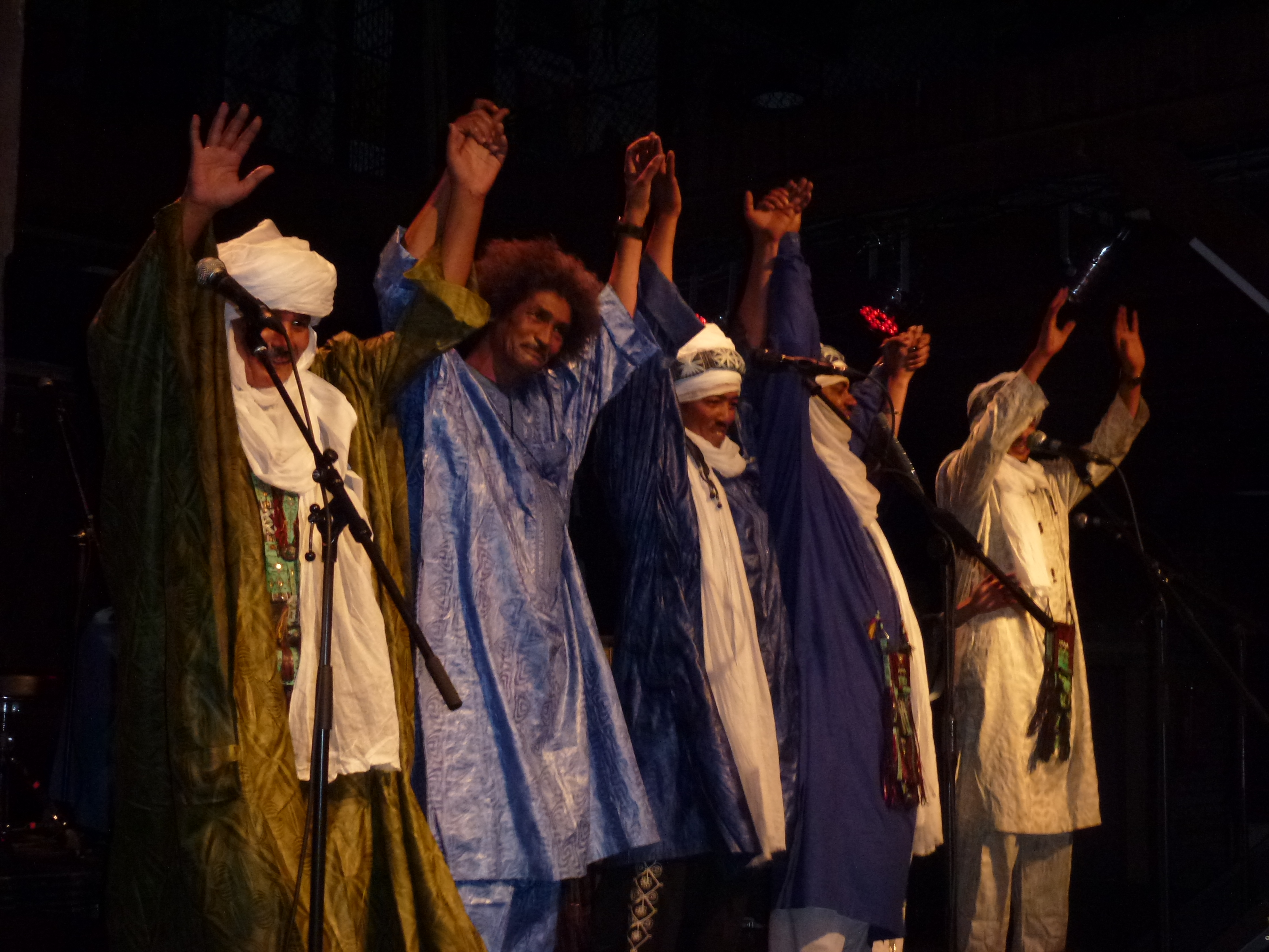 Tinariwen at Festival das Musicas do Mundo Sines/Portugal 2010